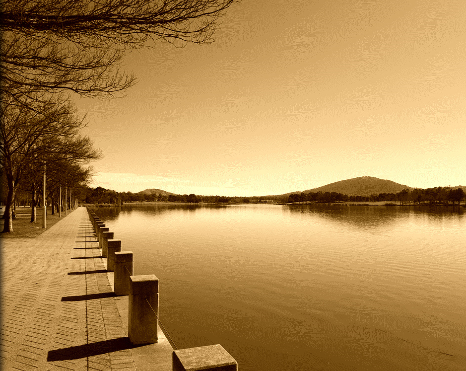 Lake Tuggeranong